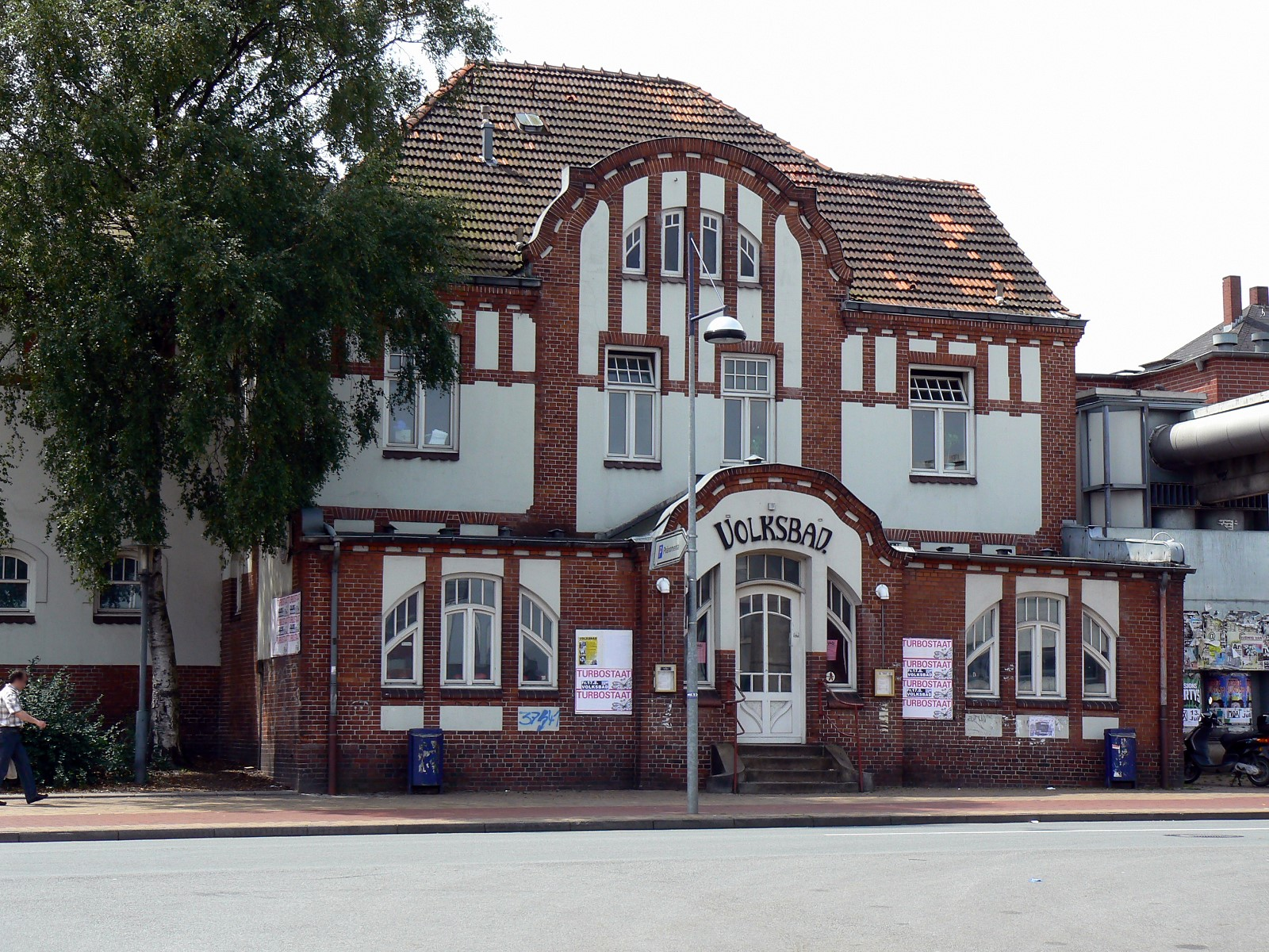 Cultural center Volksbad in Flensburg/Germany.